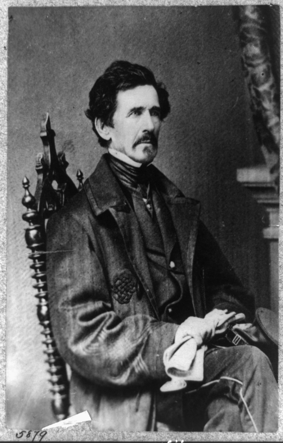 Title: V. Van Antwerp, Bv't. Brig. General Abstract: Three-quarter length portrait, seated, facing right. Physical description: 1 photographic print. Notes: Civil War Photograph Collection.; No. 5879.